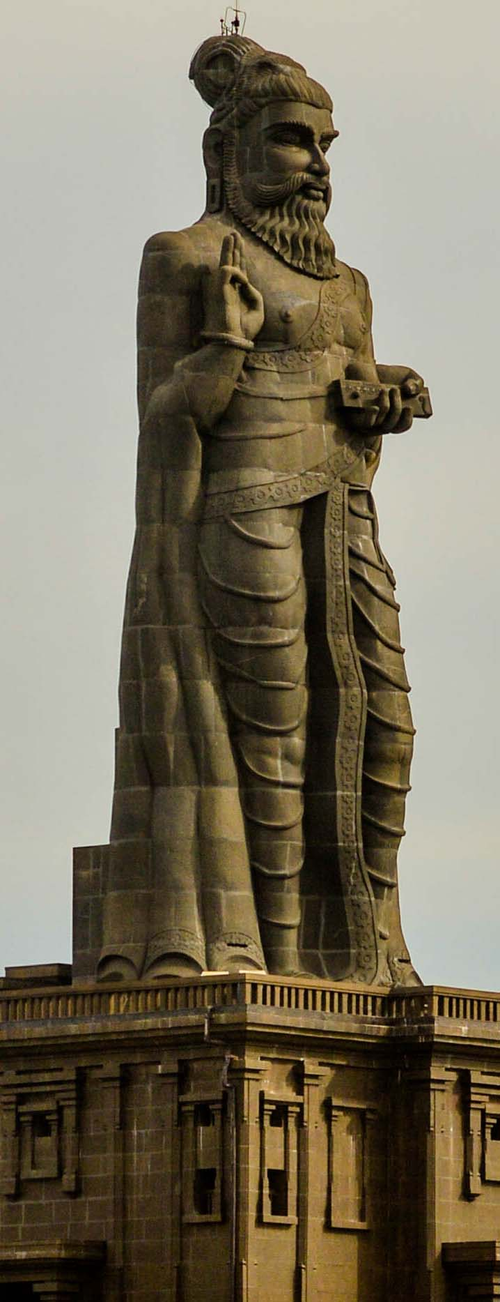 Thiruvalluvar Statue at Kanyakumari